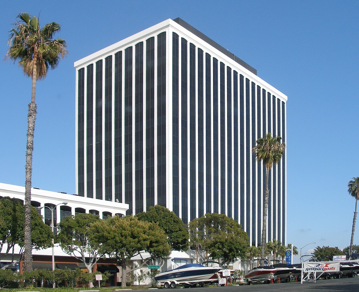 The office tower in Marina Del Rey which is home to the University of Southern California's Information Sciences Institute (occupies several floors) and the Internet Corporation for Assigned Names and Numbers (ICANN) (occupies part of one floor). Photographed on April 21, 2007 by user Coolcaesar.